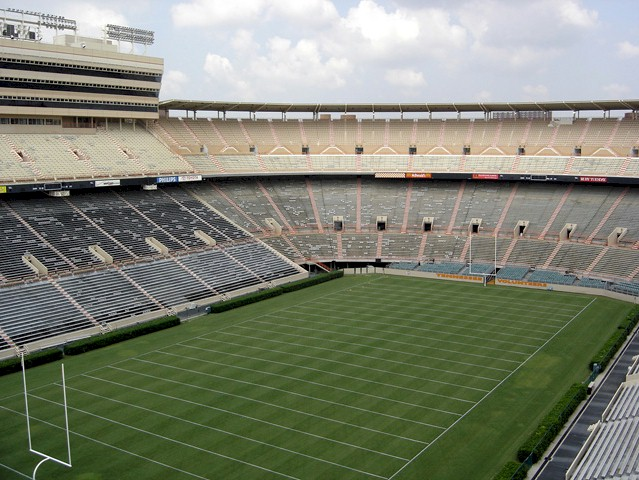 Neyland Stadium, football stadium at the University of Tennessee (USA).